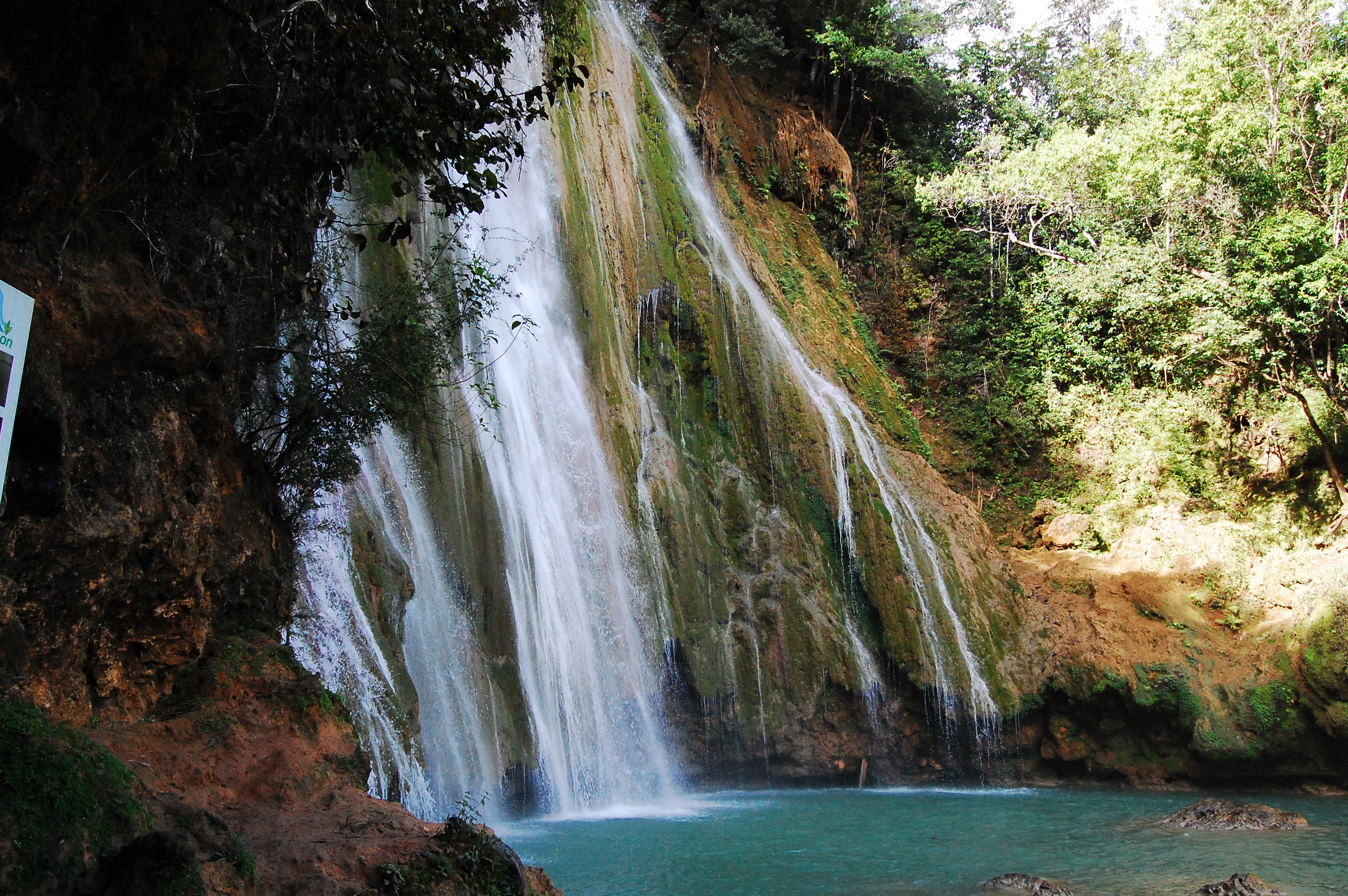 Waterfall in El Limón, Samaná